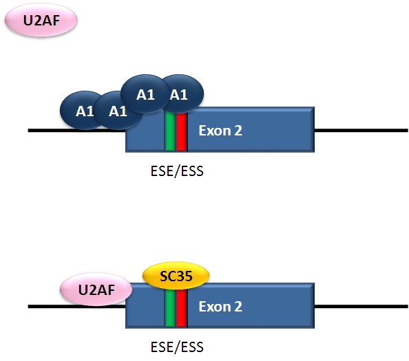 Alternative splicing of HIV-1 tat exon 2. HIV-1 RNA is alternatively spliced in multiple ways. Equilibrium among differentially spliced transcripts, encoding different products, is required for viral multiplication. The inclusion of tat exon 2 in the RNA is regulated by competition between the splicing repressor hnRNP A1 and the SR protein SC35. Within exon 2 an ESS and ESE overlap. If A1 repressor binds, it initiates cooperative binding of multiple A1 molecules, extending into the 5’ donor site upstream of exon 2 and preventing the binding of U2AF35 to the polypyrimidine tract. If SC35 binds to the ESE, it prevents A1 binding and maintains the 5’ donor site in an accessible state for assembly of the spliceosome. Competition between the activator and repressor provides the required equilibrium among transcripts including and excluding exon 2.